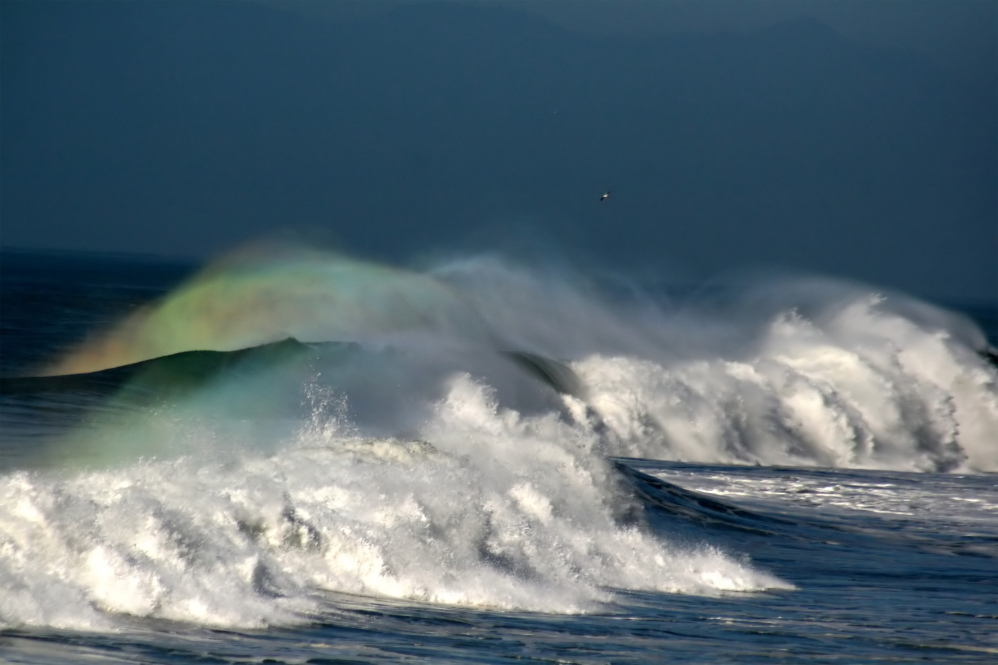 Sea storm with rainbows in Pacifica, California